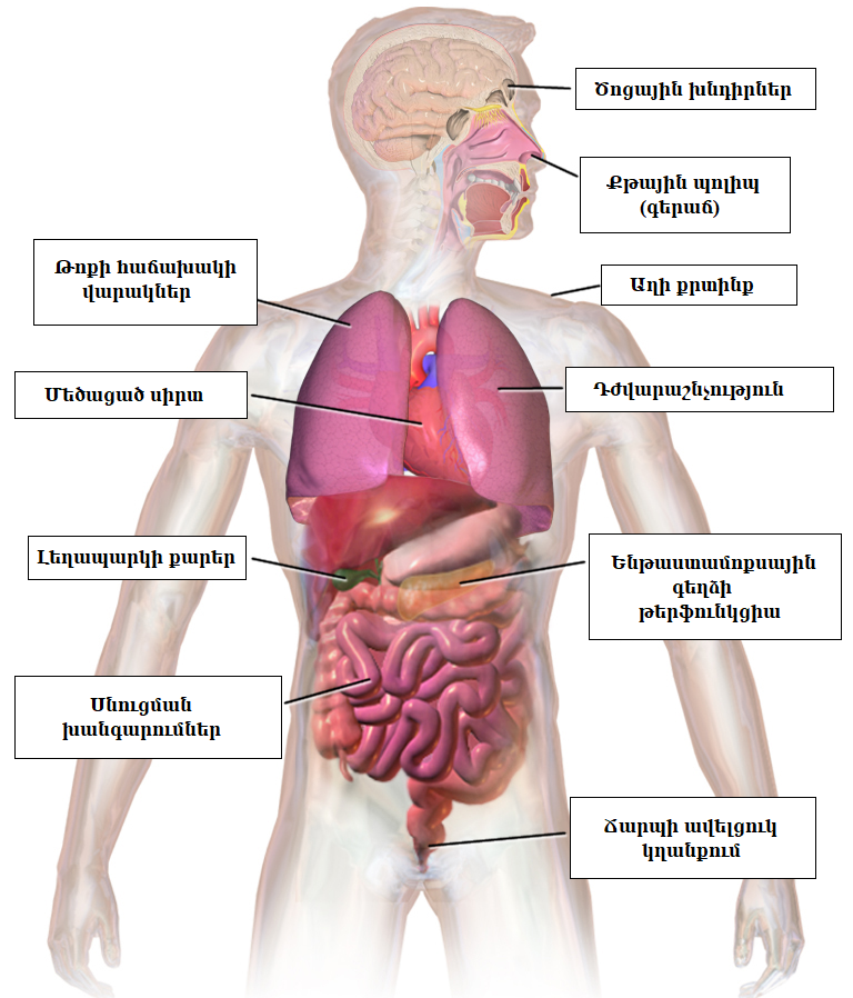 Blausen CysticFibrosis